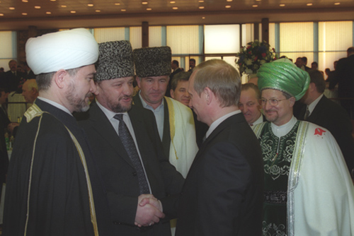 THE GRAND KREMLIN PALACE, MOSCOW. A party after the inauguration ceremony. Vladimir Putin with Ravil Gainutdin, head of the Council of Muftis of Russia (left), Akhmat Khadji Kadyrov, head of the Spiritual Directorate of the Muslims of the Chechen Republic (second left), and Mufti Talgat Tadzhuddin, head Central Spiritual Directorate of the Muslims of Russia (right).